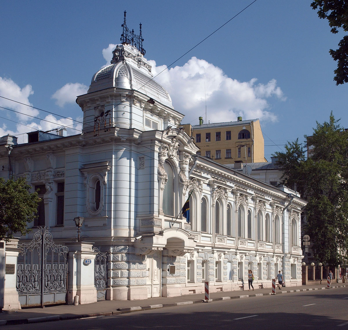 Korobkova House by Lev Kekushev, 1894 - one of his early works. 33, Pyatnitskaya Street, Moscow. Present-day embassy of Tanzania.